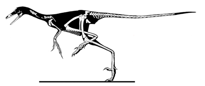 Skeletal reconstructions of Sinornithoides youngi.